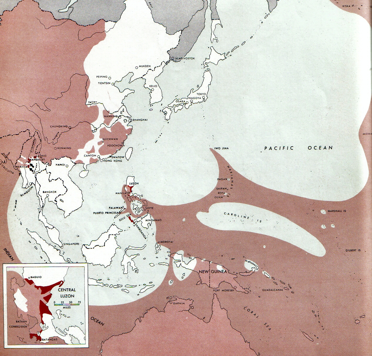 Map of the front against Japan as of 15 Mar 1945: This map is taken from the source "Atlas of the World Battle Fronts in Semimonthly Phases to August 15th 1945: Supplement to The Biennial report of The Chief of Staff of the United States Army July 1, 1943 to June 30 1945 To the Secretary of War". (See Cover, Forward and Map details)